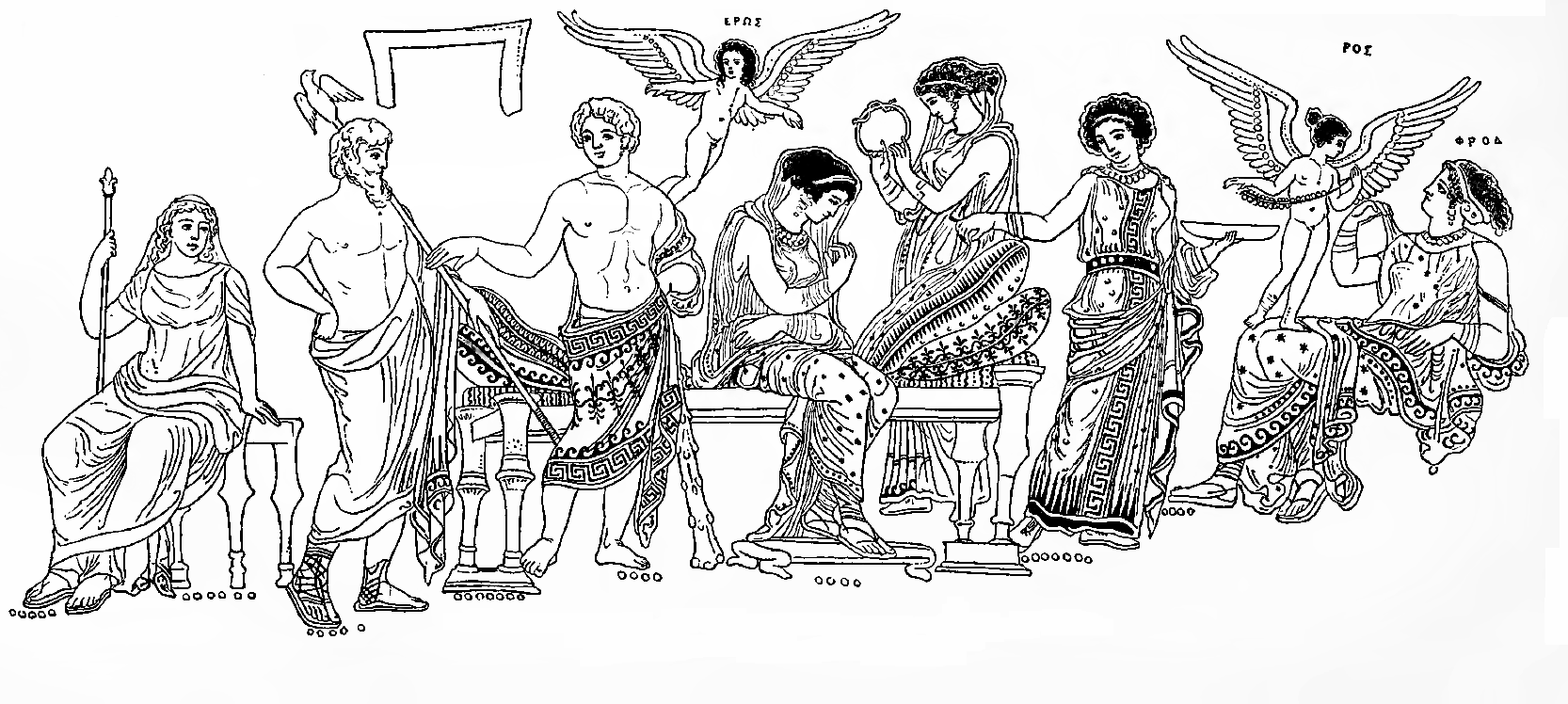 Marriage of Hebe and Heracles, from an Apulian vase.